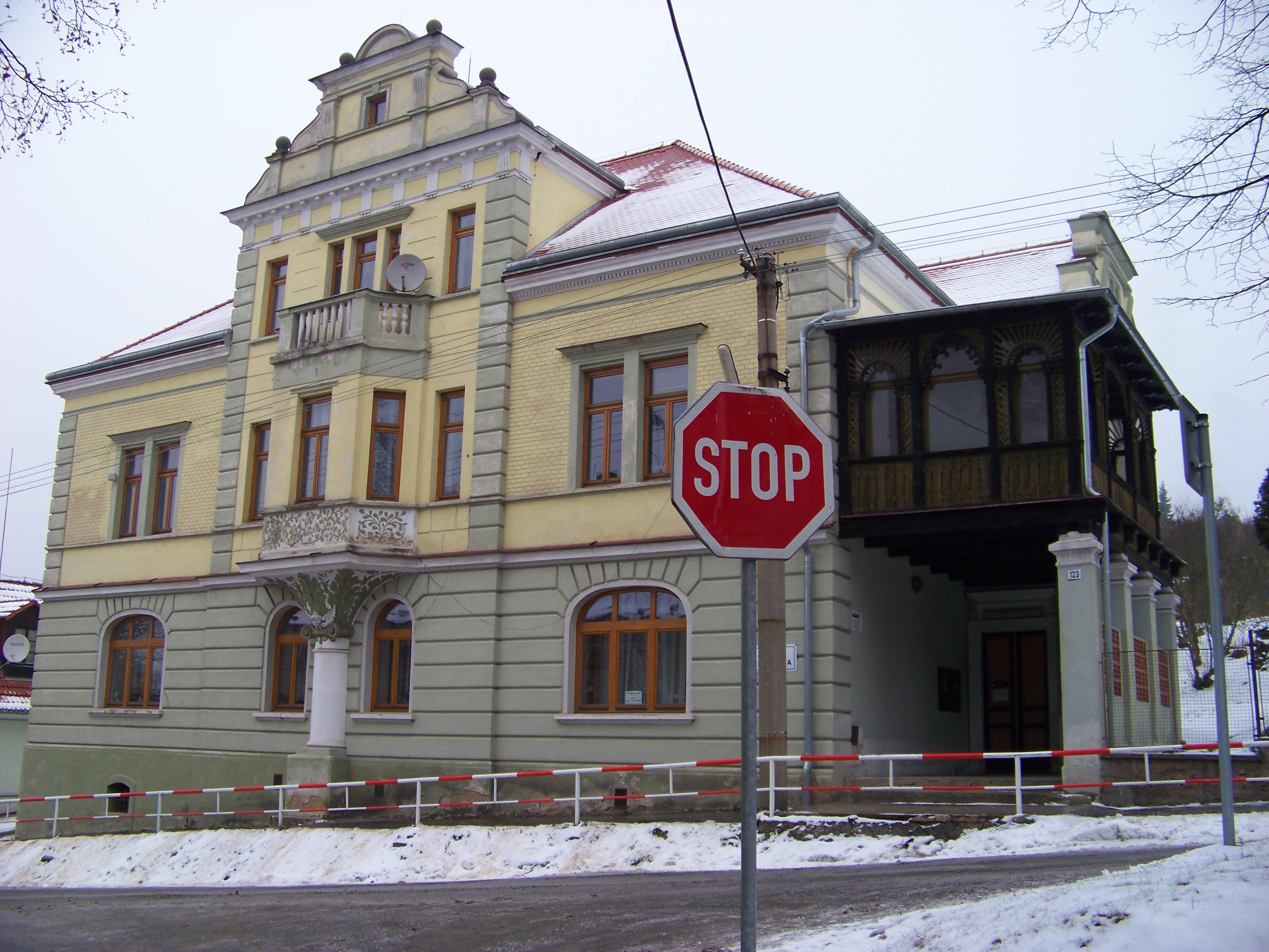 Křivoklát, Rakovník District, Central Bohemian Region, the Czech Republic. Amalín, house No. 123.